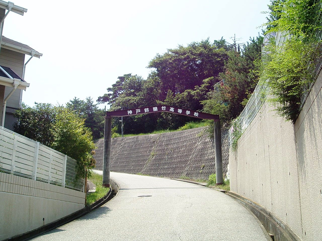 East entrance to Hyogo Prefectural Kobe-Suzurandai Senior High School, located in Kita-ku, Kobe, Hyogo, Japan.